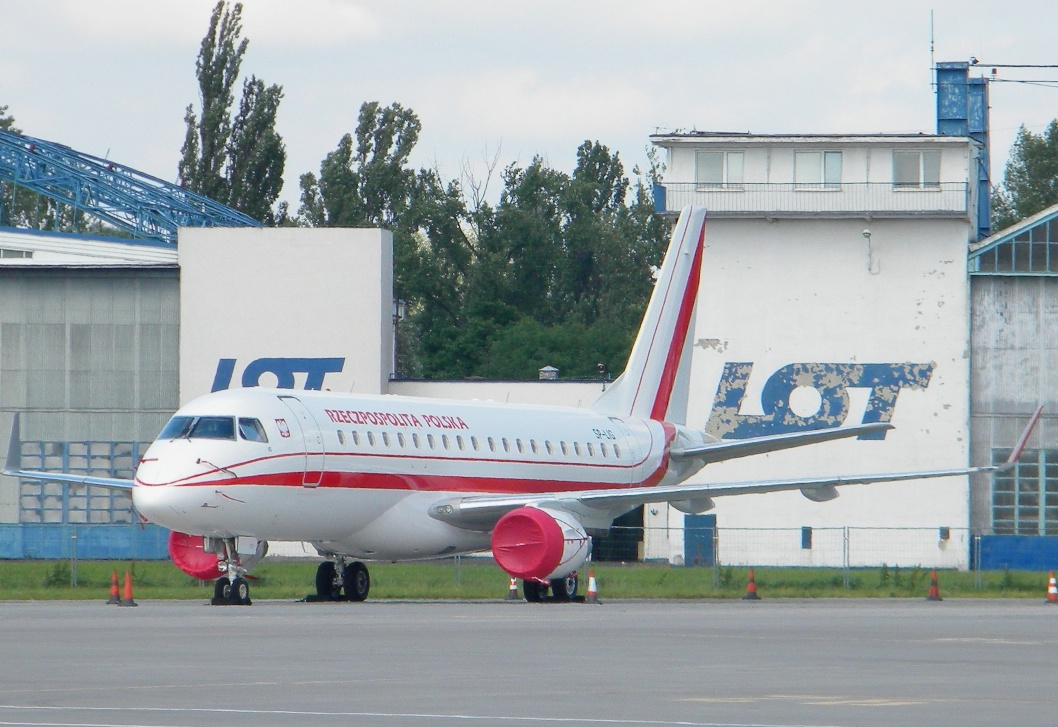 Embraer 170-200LR, belonging to LOT Polish Airlines, chartered by the Polish Ministry of Defence on June, 8th, 2010, in Poland's Government livery. Okęcie Airport.